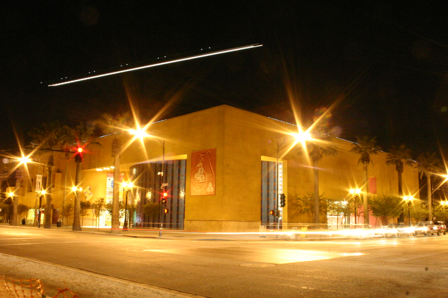 The Tech Museum of Innovation in downtown San Jose; the white line in the sky is an airliner on approach to San Jose International Airport during the exposure time